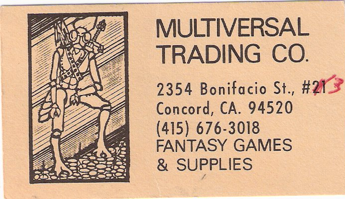 Photo of business card in photographer's personal collection. Card received from David Hargrave in 1979.